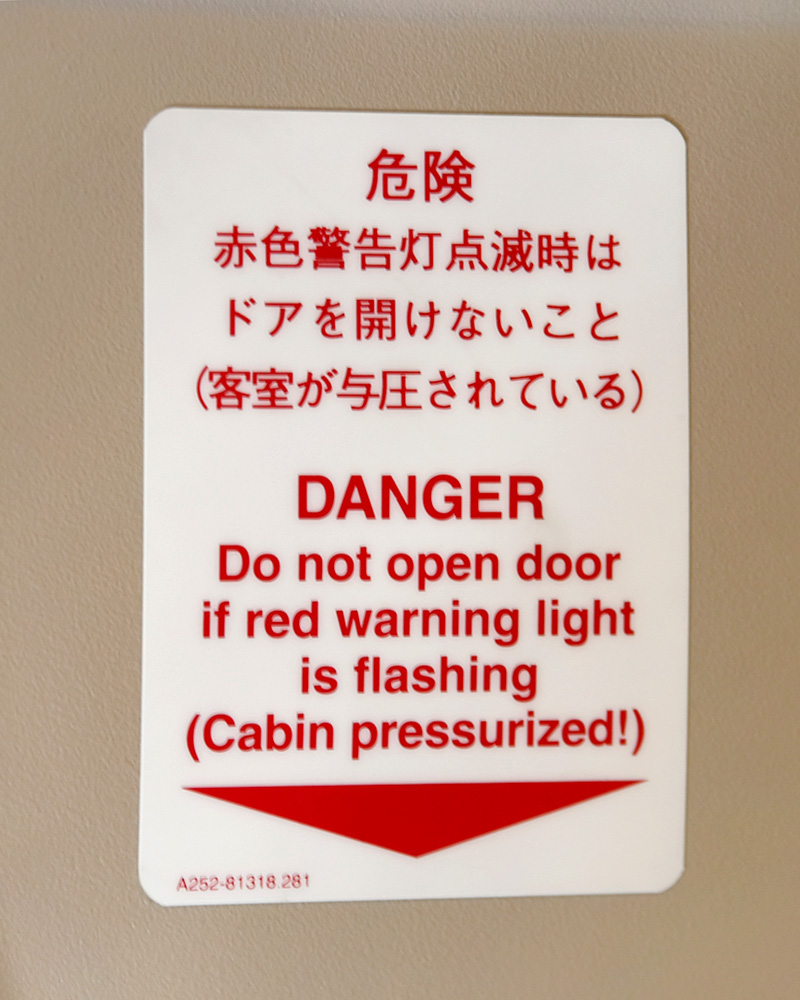 Cabin door caution of Japan Airlines Airbus A300-600R